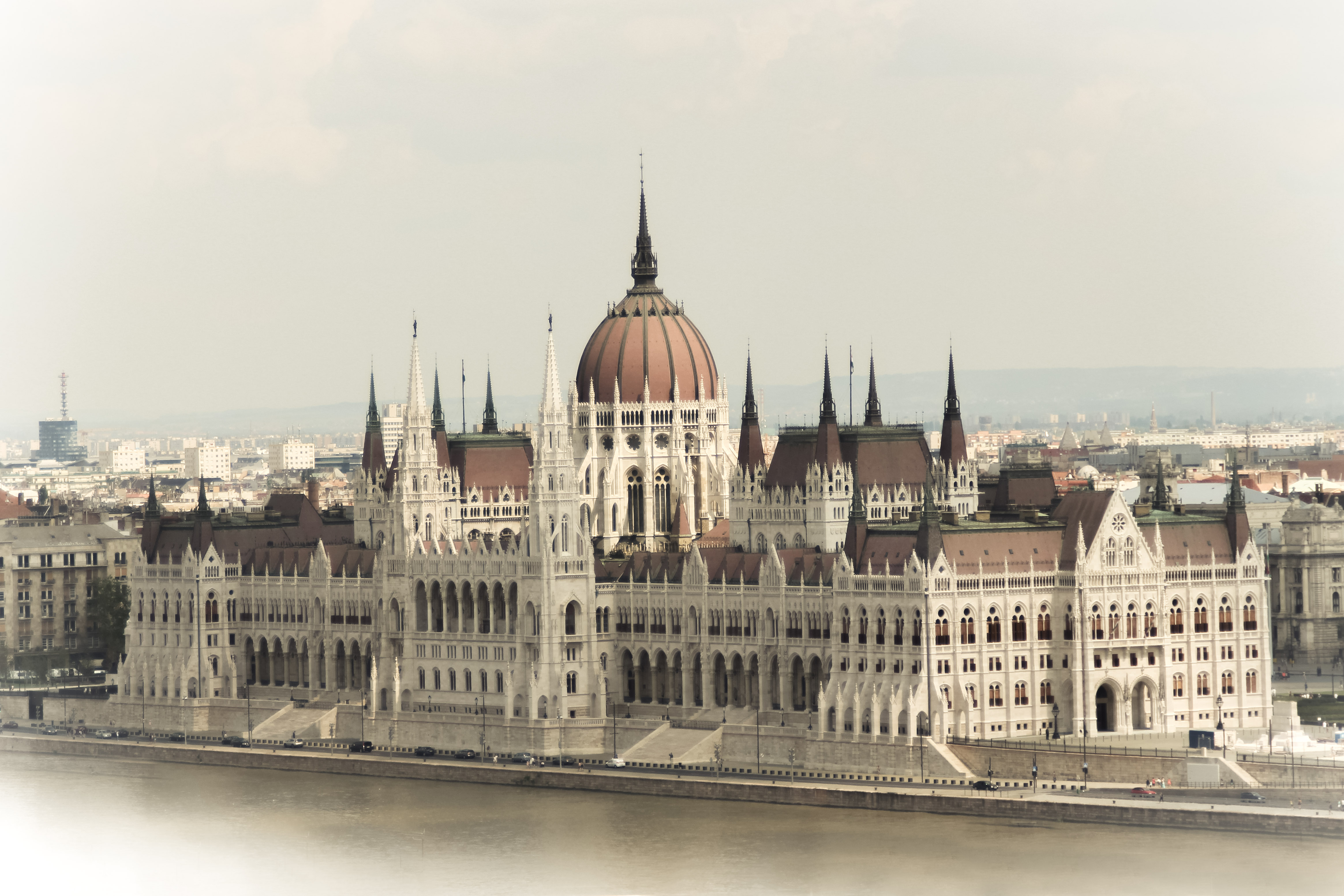 Hungarian Parliament Building from Buda side of Budapest.